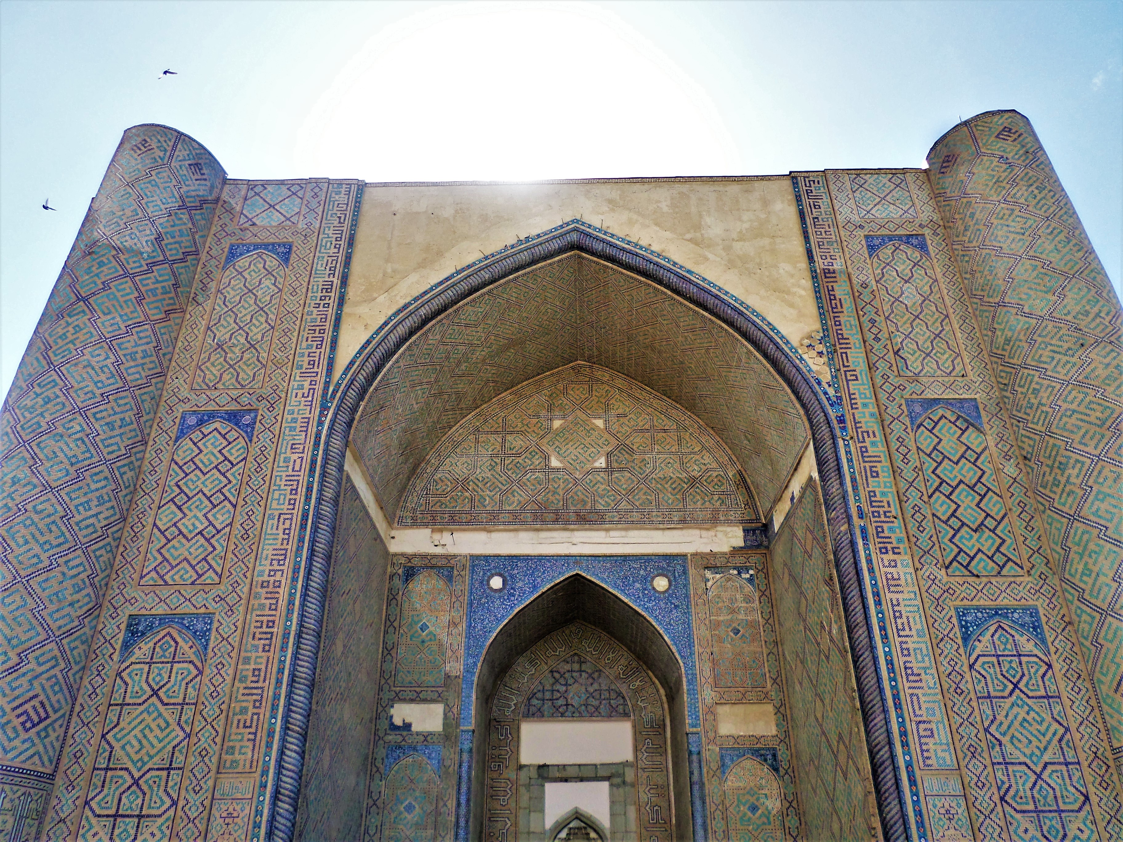 Mosque Bibi Khanum мечеть the main entrance